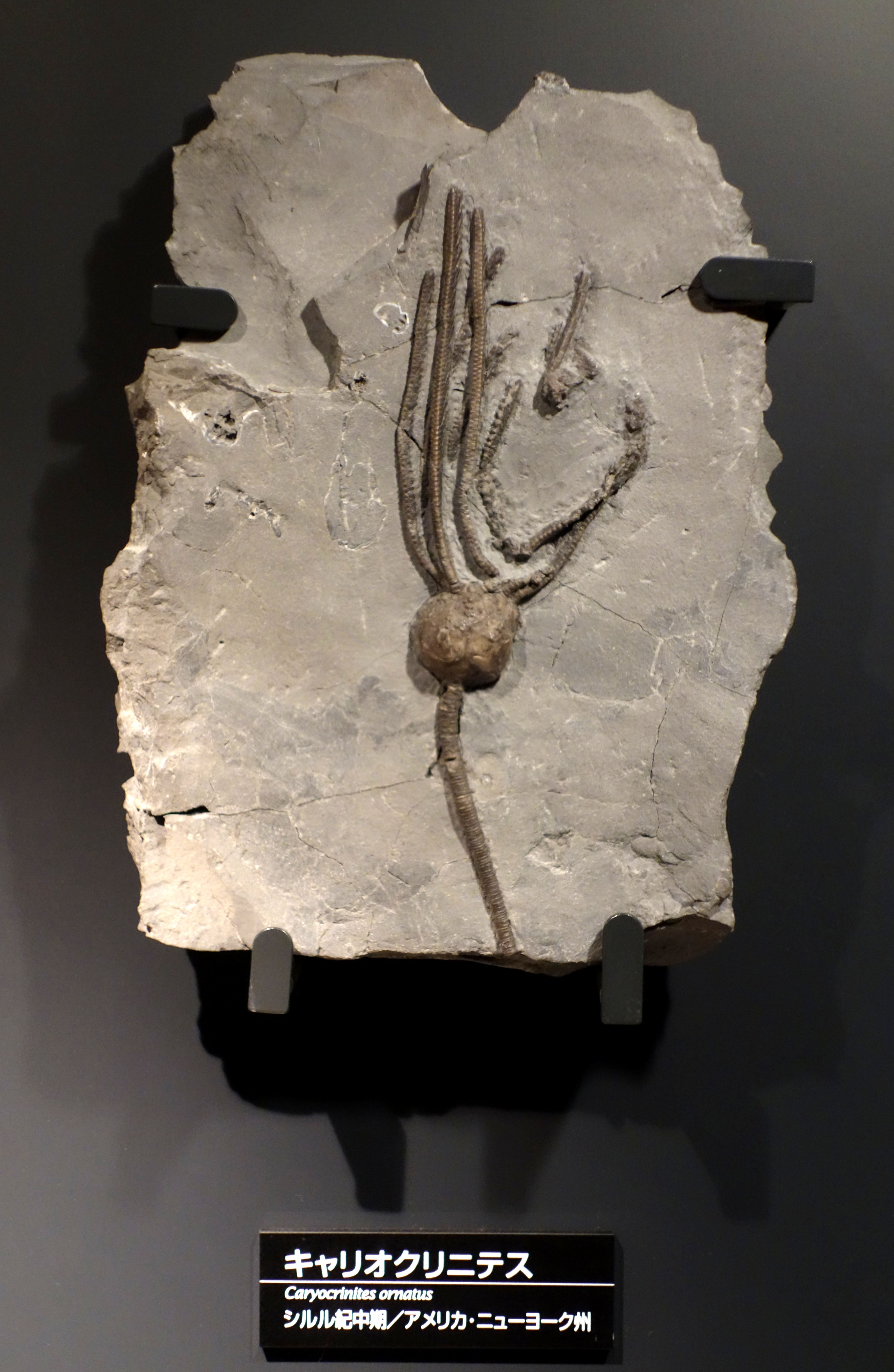 Exhibit in the National Museum of Nature and Science, Tokyo, Japan.